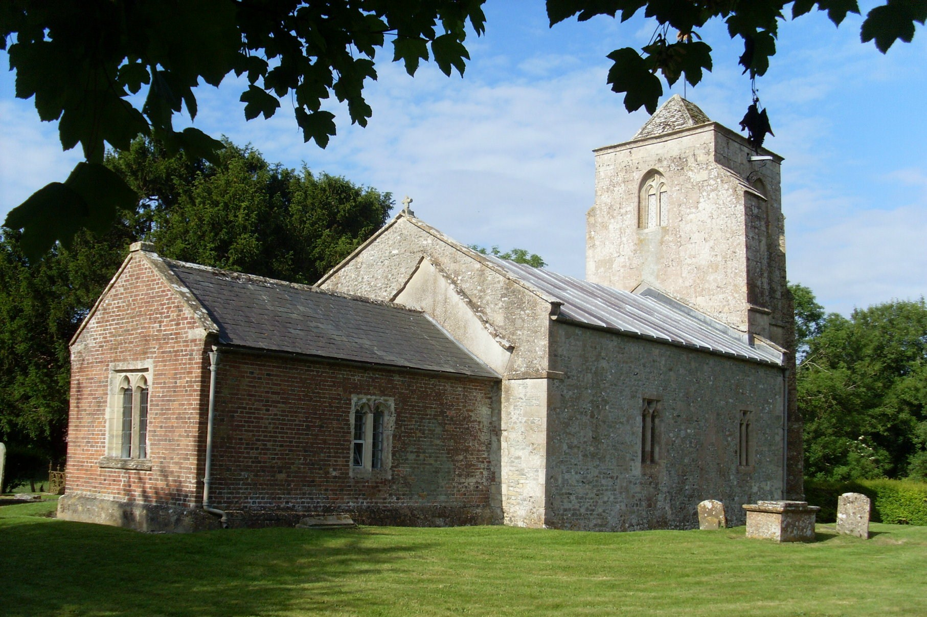 Church of England parish church of All Saints, Alton Priors, Wiltshire: morning view from the northeast. All Saints' is redundant parish church in the care of the Churches Conservation Trust.